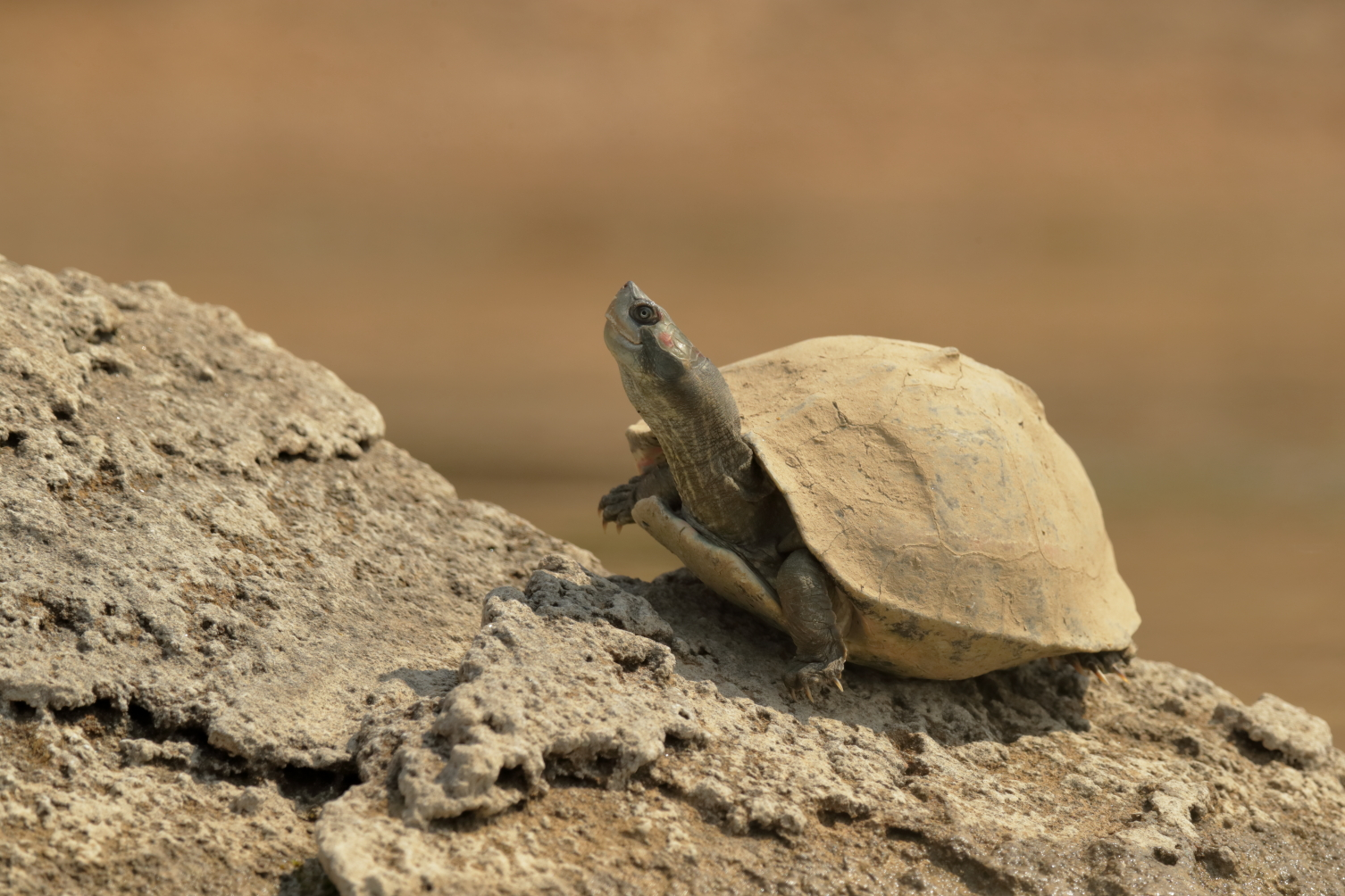 Indian tent turtle (Pangshura tentoria)